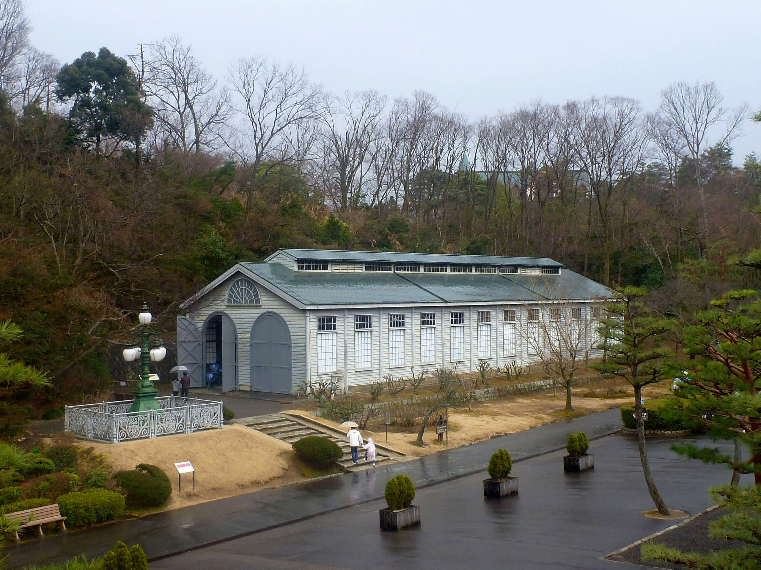 Shimbashi Factory of the Japan Railway Bureau and Lamp of Nijubashi, Imperial Palace